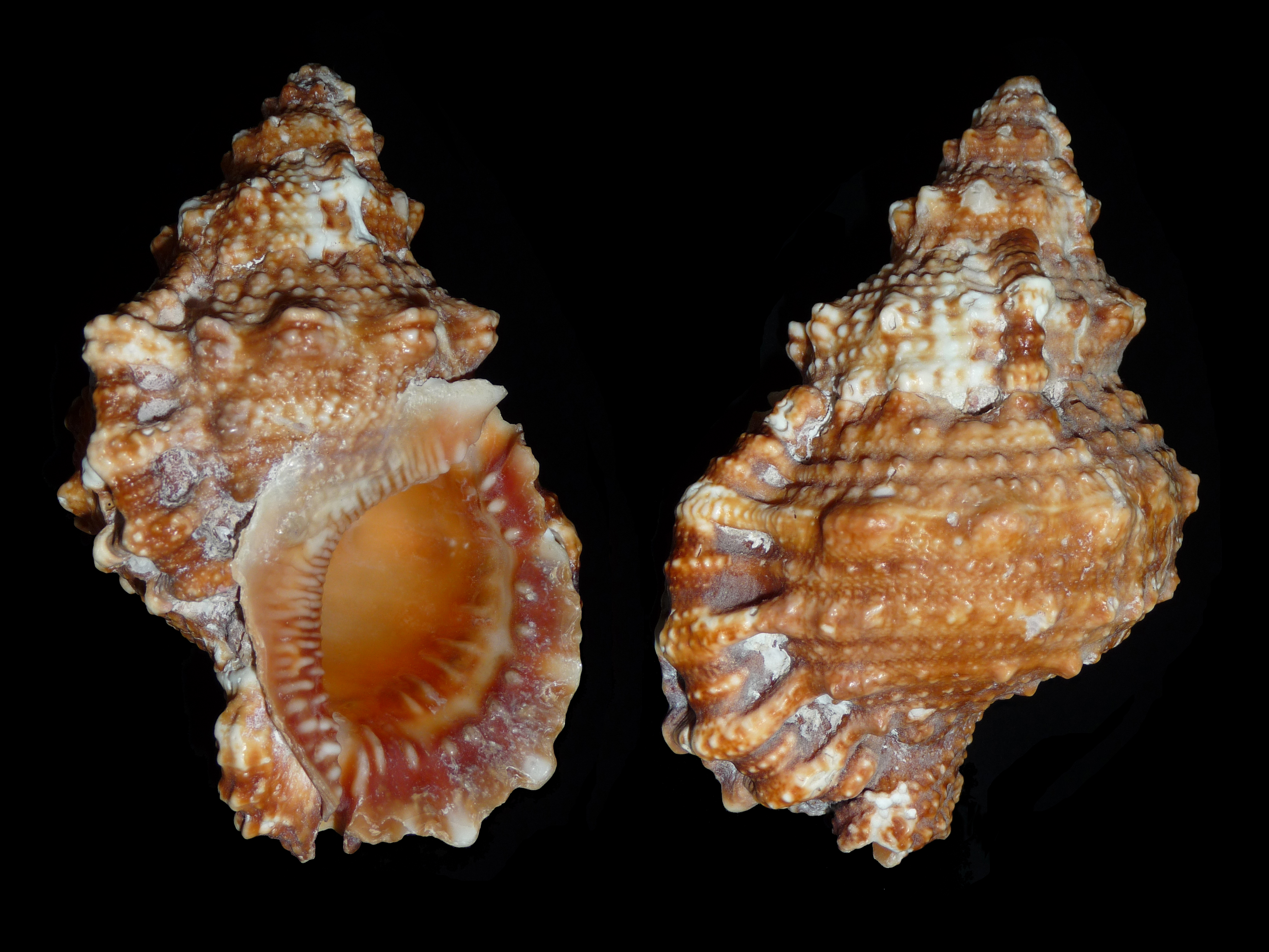 Ruddy Frog Shell, Reddish Frog Shell. Seashell from my personal collection.